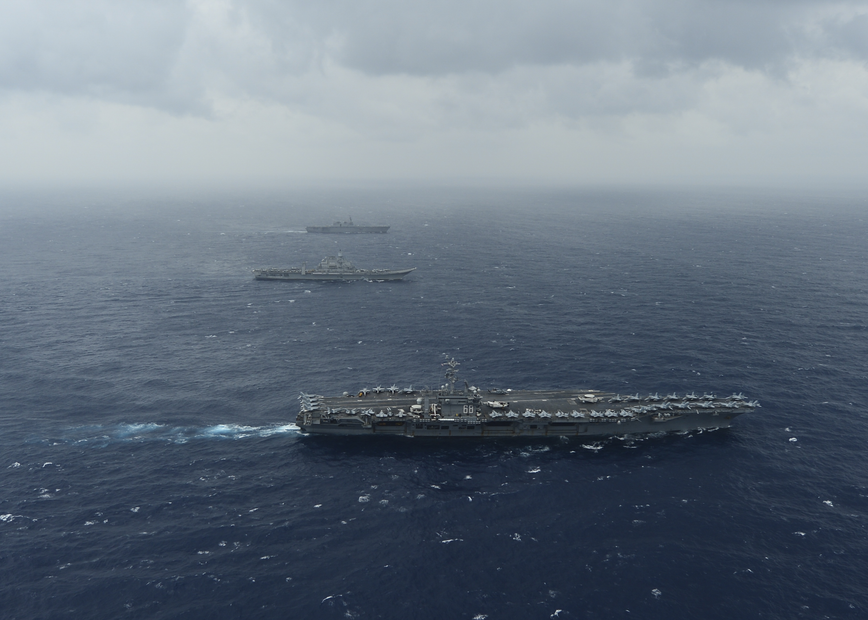 170717-N-XL056-0736 BAY OF BENGAL (July 17, 2017) U.S Navy aircraft carrier USS Nimitz (foreground), Indian Navy aircraft carrier INS Vikramaditya (middle) and a Japan Maritime Self-Defense Force (JMSDF) ship sail in formation in the Bay of Bengal during exercise Malabar 2017. Malabar 2017 is the latest in a continuing series of exercises between the Indian navy, JMSDF and U.S. Navy that has grown in scope and complexity over the years to address the variety of shared threats to maritime security in the Indo-Asia-Pacific region. (U.S. Navy photo by Mass Communication Specialist 3rd Class Leon Wong/Released)